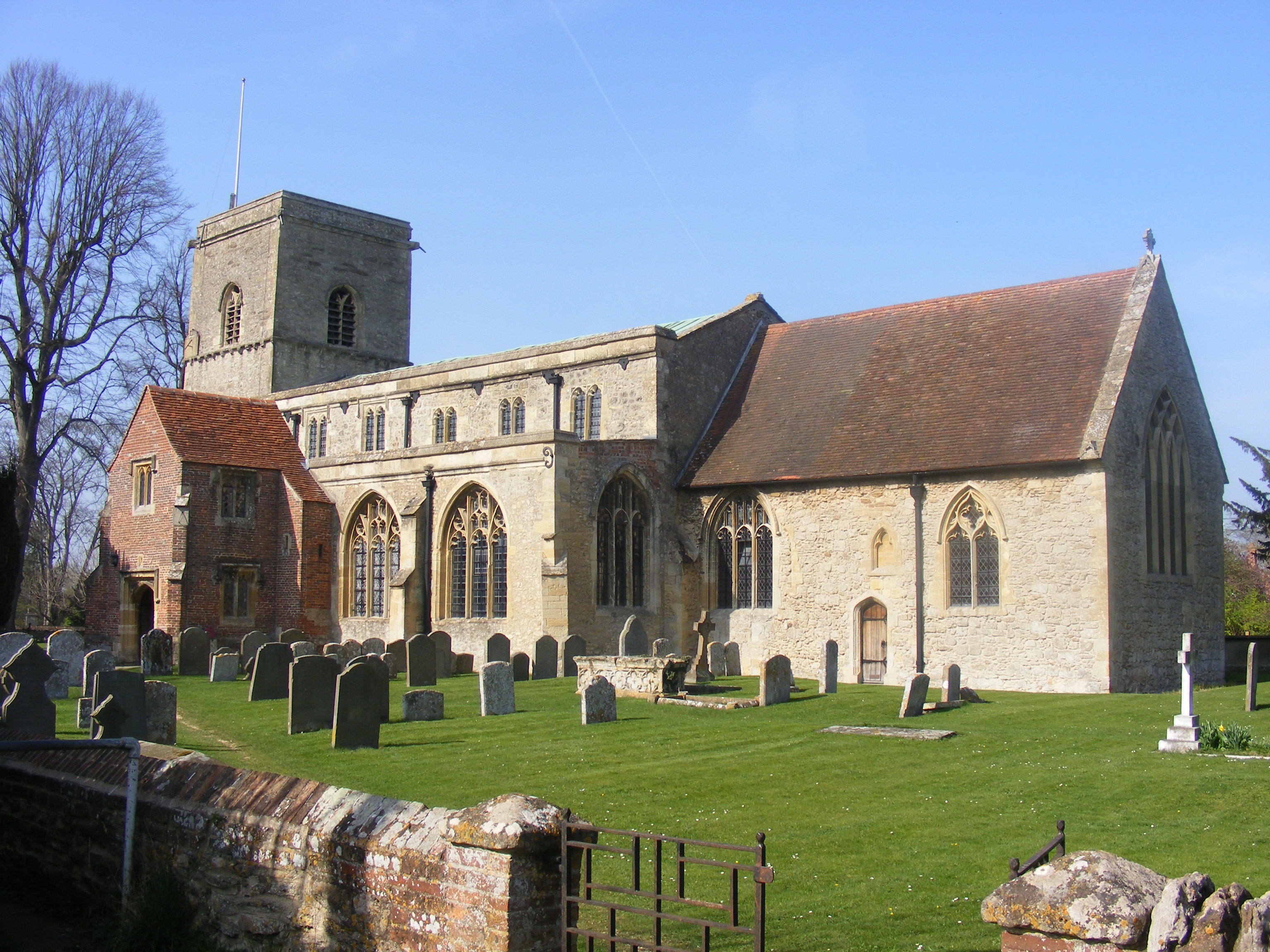 Church of All Saints